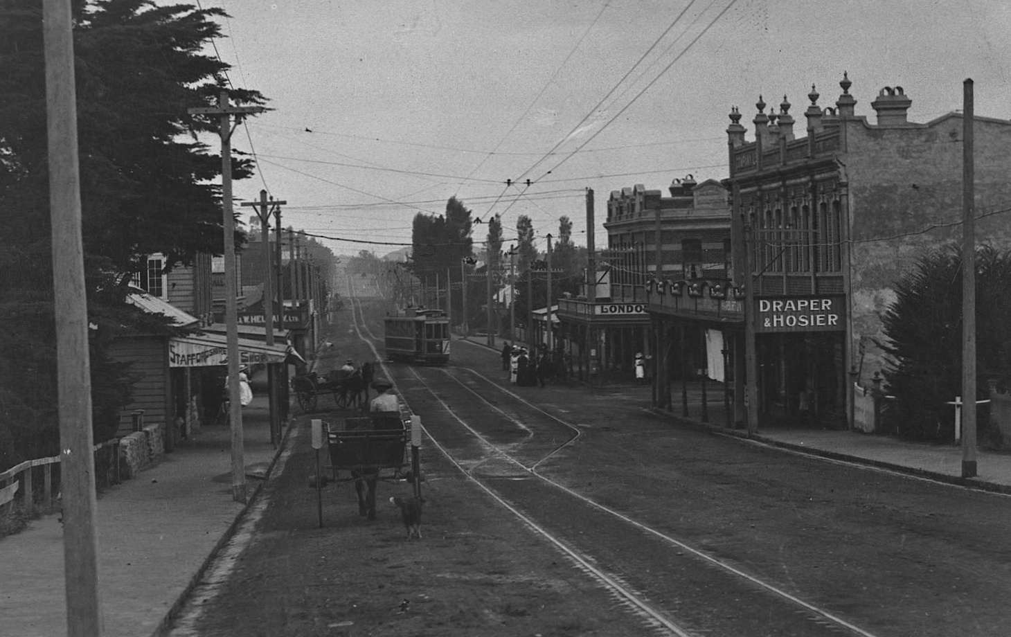 Dominion Road in Auckland, New Zealand, looking south near Walters Road in the 1900s. Extended information on origin webpage reads: Photographer: De Tourret, Ernest Date: 190-? Description: Looking south along Dominion Road in the vicinity of Walters Road (right) showing the premises of Miss Warburton, Draper and the London Bakery (right); the Staffordshire (?) Shop, R and W Hellaby (left); horse-drawn vehicles (left); tram tracks (centre front to rear); tram pulling into tram stop with people waiting to board (right rear) Click for more detail 255A-93